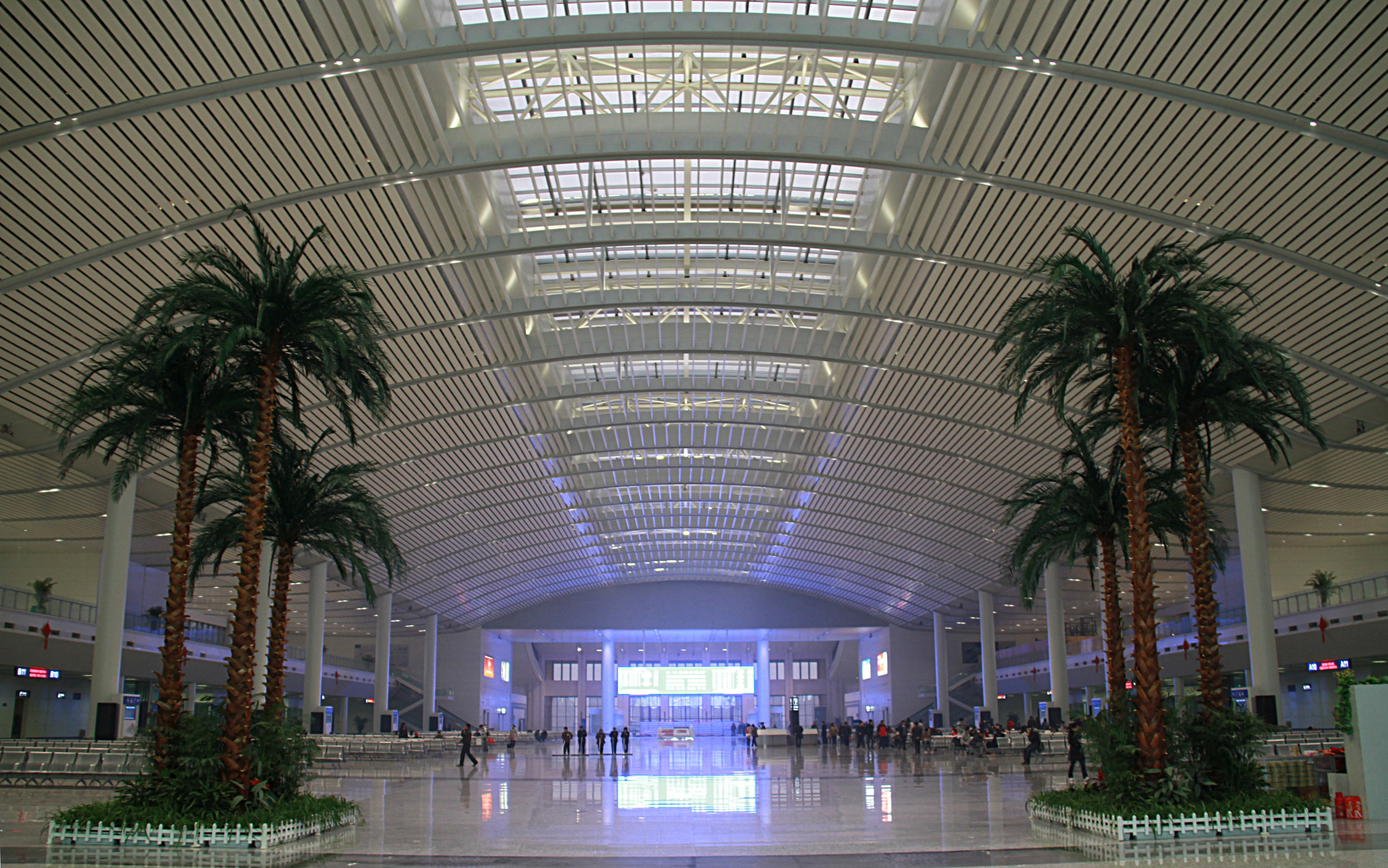 Photograph of the main waiting hall of the Jinan West Railway Station, Jinan, Shandong, China